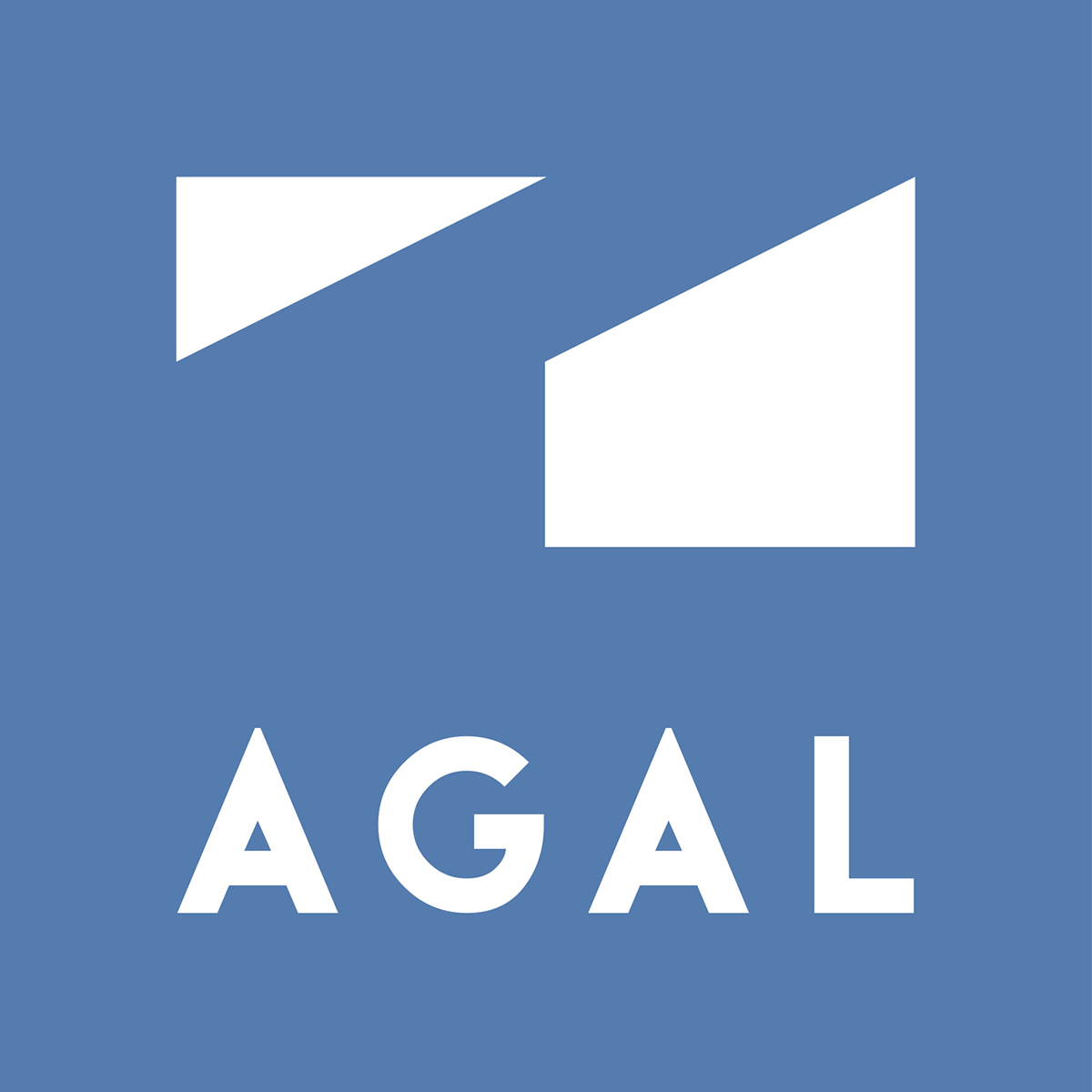 New AGAL logo, use from 2016 onwards.